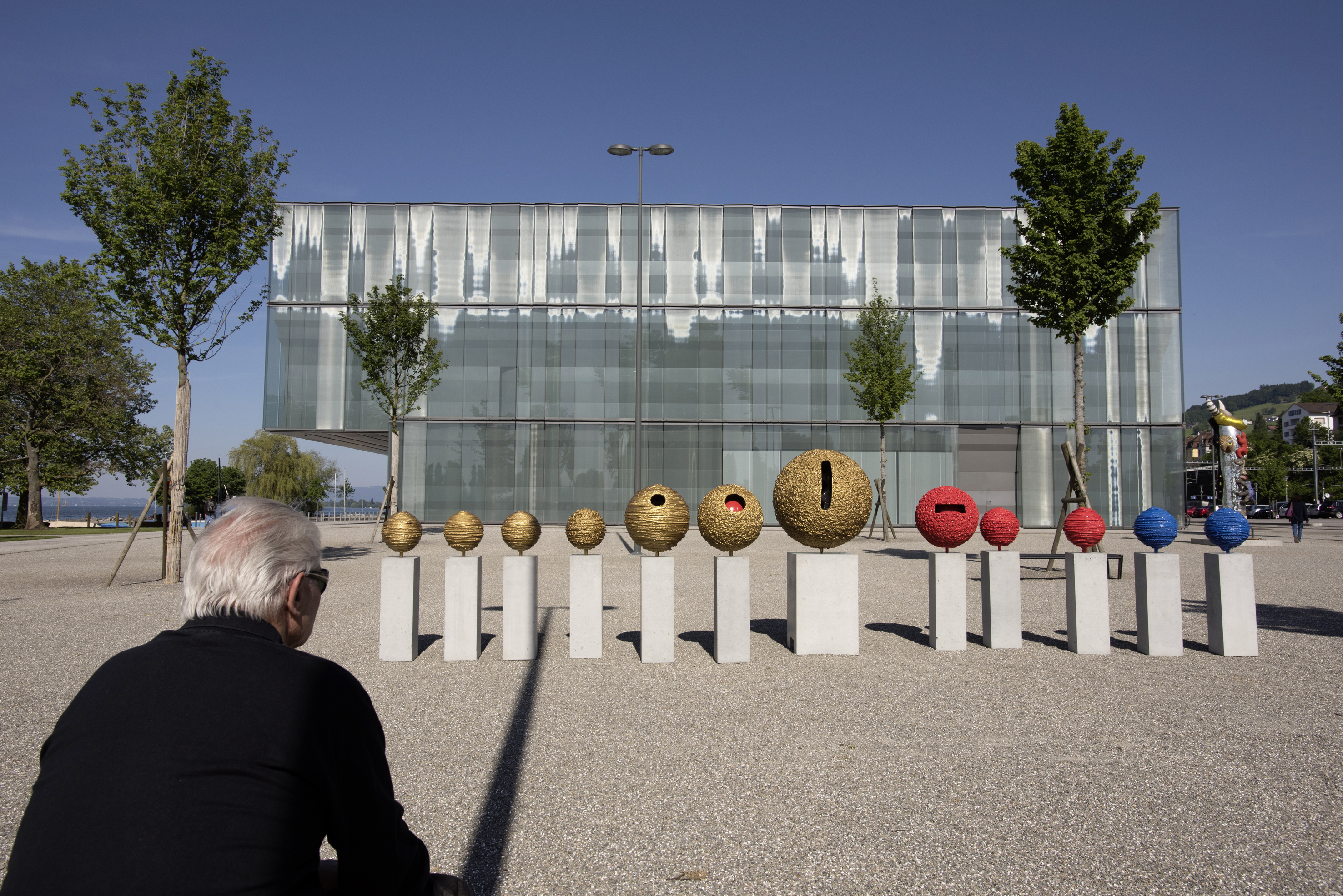 John Stutz: Installation »Crying Planets«, June 2015